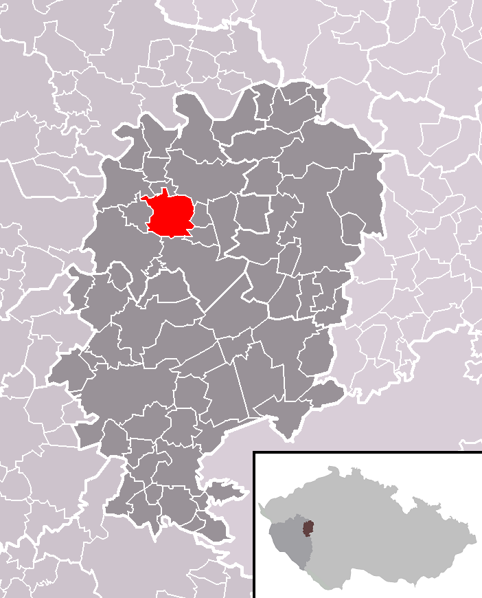 Location of Radnice town within Rokycany District and identical administrative area of Rokycany as a Municipality with Extended Competence.